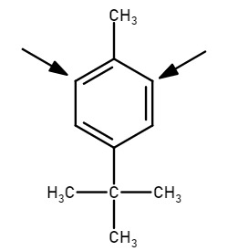 When 2 directing group's effect is similar, the third one depends on the less hindered one.